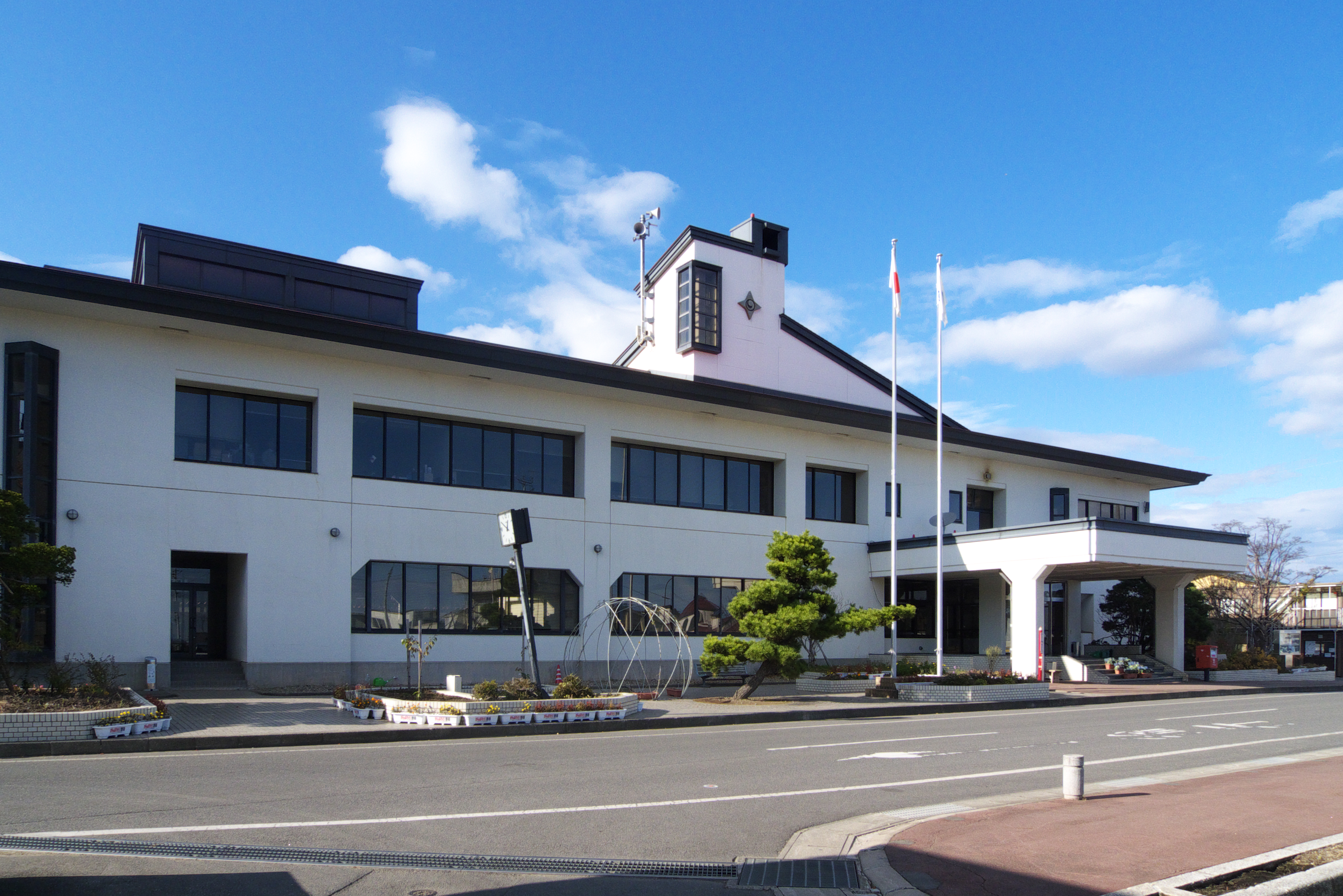 Office of Noda Village, Iwate Prefecture, Japan